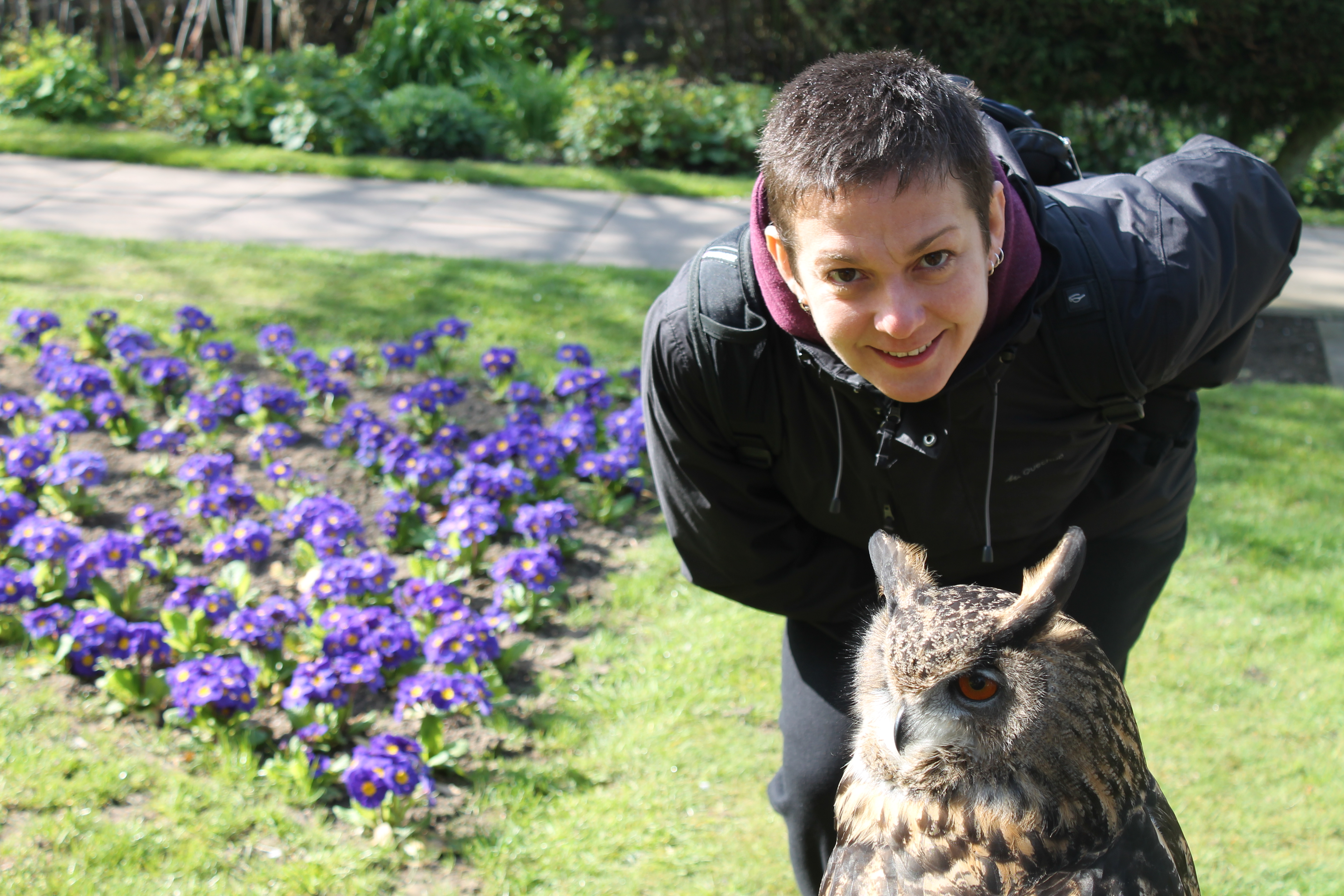 Natalia Luis-Bassa, Venezuelan Orchestral Conductor, in a Spring day in Holmfirth visiting Willow, an Owl from Wise Owl Birds of Prey Rescue.